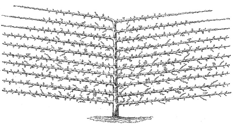 Regular upward espalier, shown used with an Apple tree.